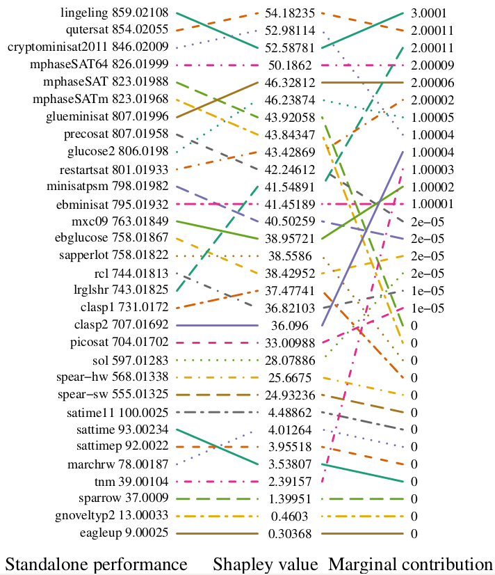 Applying Shapley value analysis on SAT12-INDU ASlib Scenario